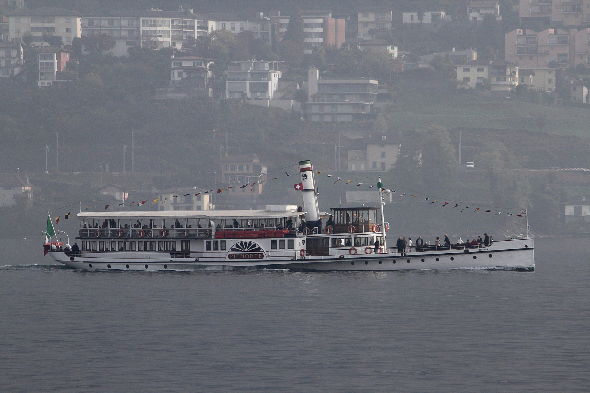 Paddle steamer "Piemonte" off Ascona.